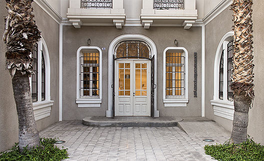 Sommer Contemporary Art 13 Rotschild Blvd. Tel Aviv, Israel